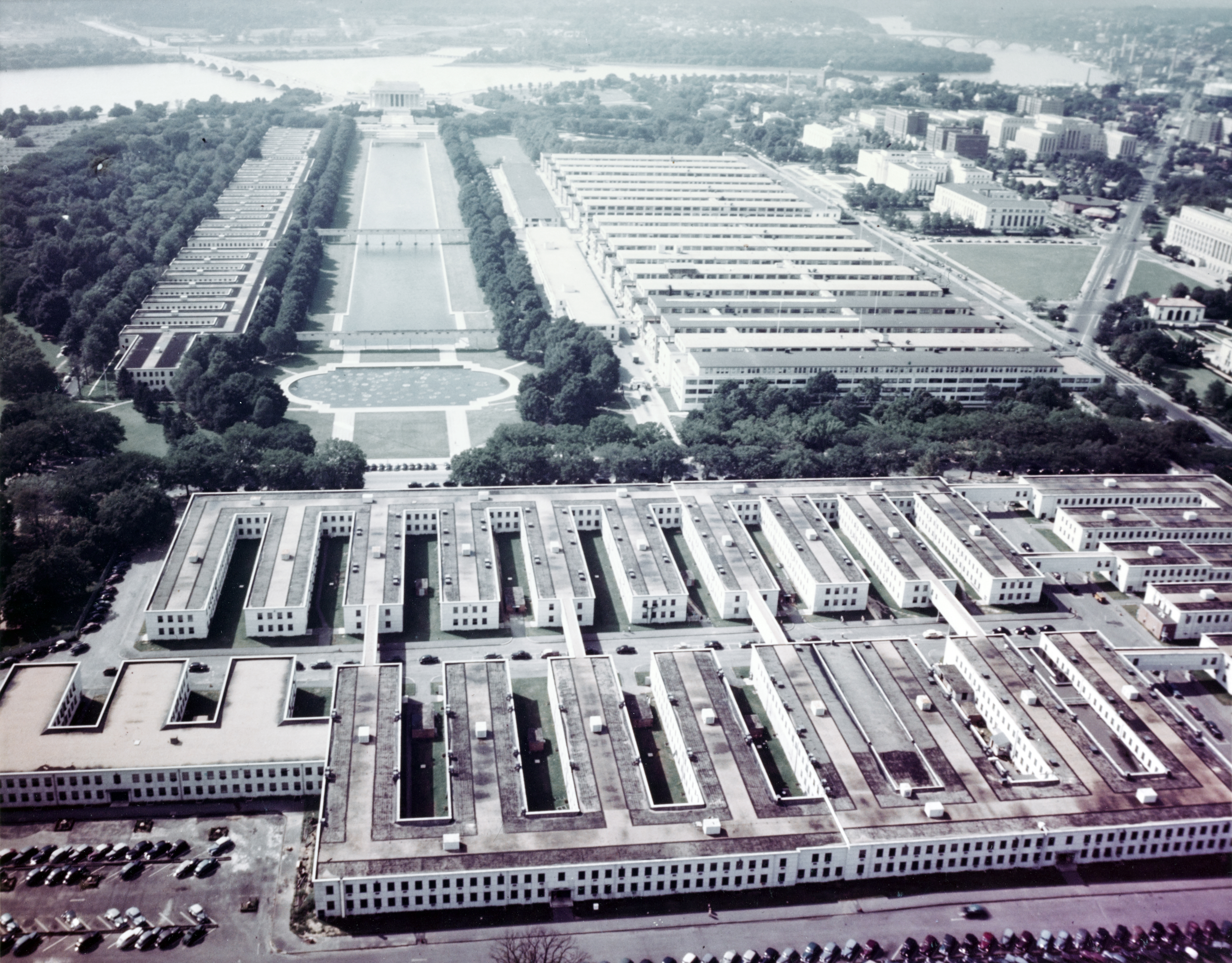 Various Navy Department buildings in Washington during World War II. Photographed from the top of the Washington Monument, looking west, in 1943-44. The Lincoln Memorial, Potomac River and Arlington Memorial Bridge are in the distance. In right center are the Main Navy (nearer of the two) and Munitions buildings, showing the fourth stories built atop their wings during the early 1940s and the tenth wing ("Zero Wing") added to the eastern end of Main Navy at about that time. Temporary buildings on the Washington Monument grounds, in the foreground, were occupied by the Bureau of Ships. Those to the left of the Reflecting Pool held the Bureau of Supplies and Accounts. Photo was color adjusted for clarity by User:SHARD